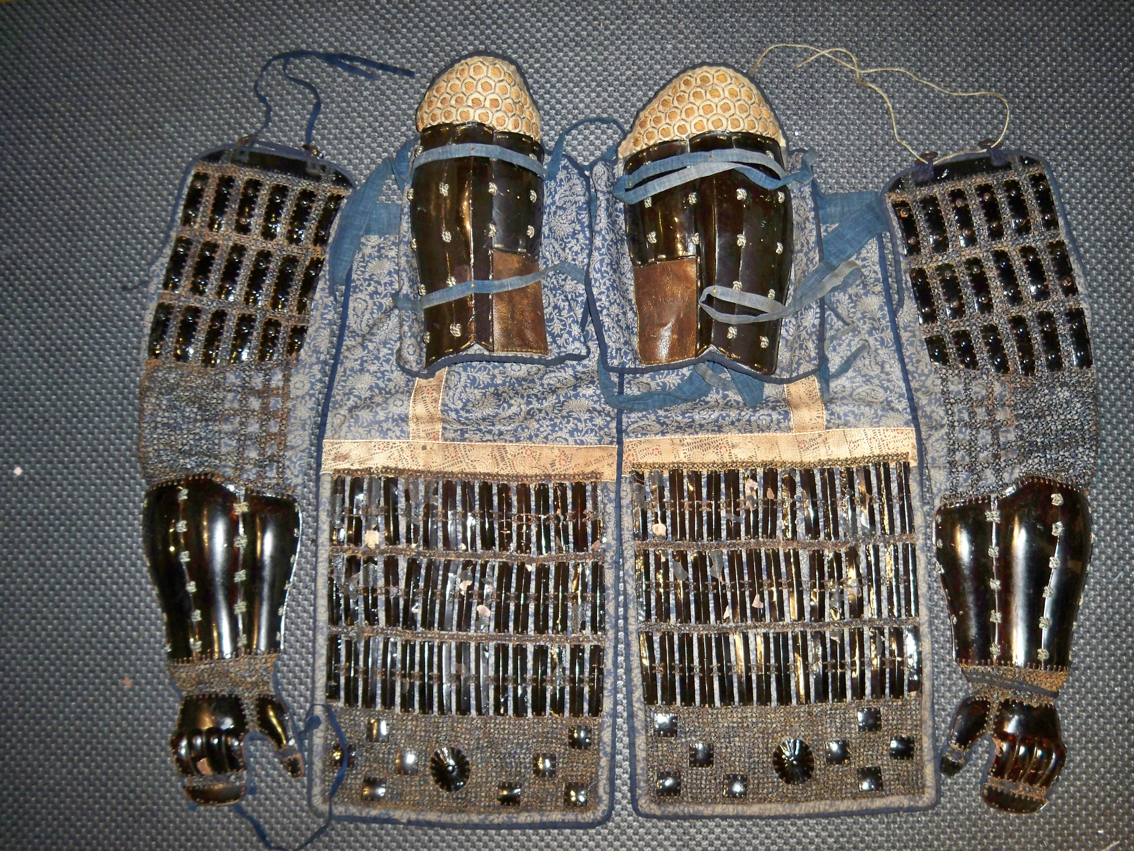 Antique Japanese (samurai) Edo period sangu. Sangu is the combination of extremity armors consisting of the shin armor suneate, thigh armor haidate and arm protection kote. This sangu has matching cloth and the iron armor plate are connected to each other by lace and chain armor kusari, the armor if sewn to a cloth backing.